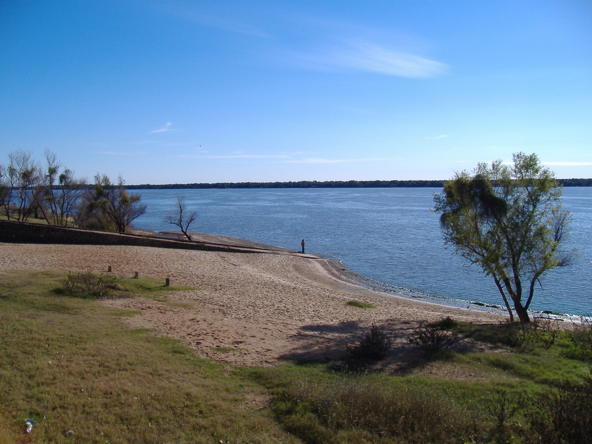 The Uruguay River from Colón, Entre Ríos, Argentina.